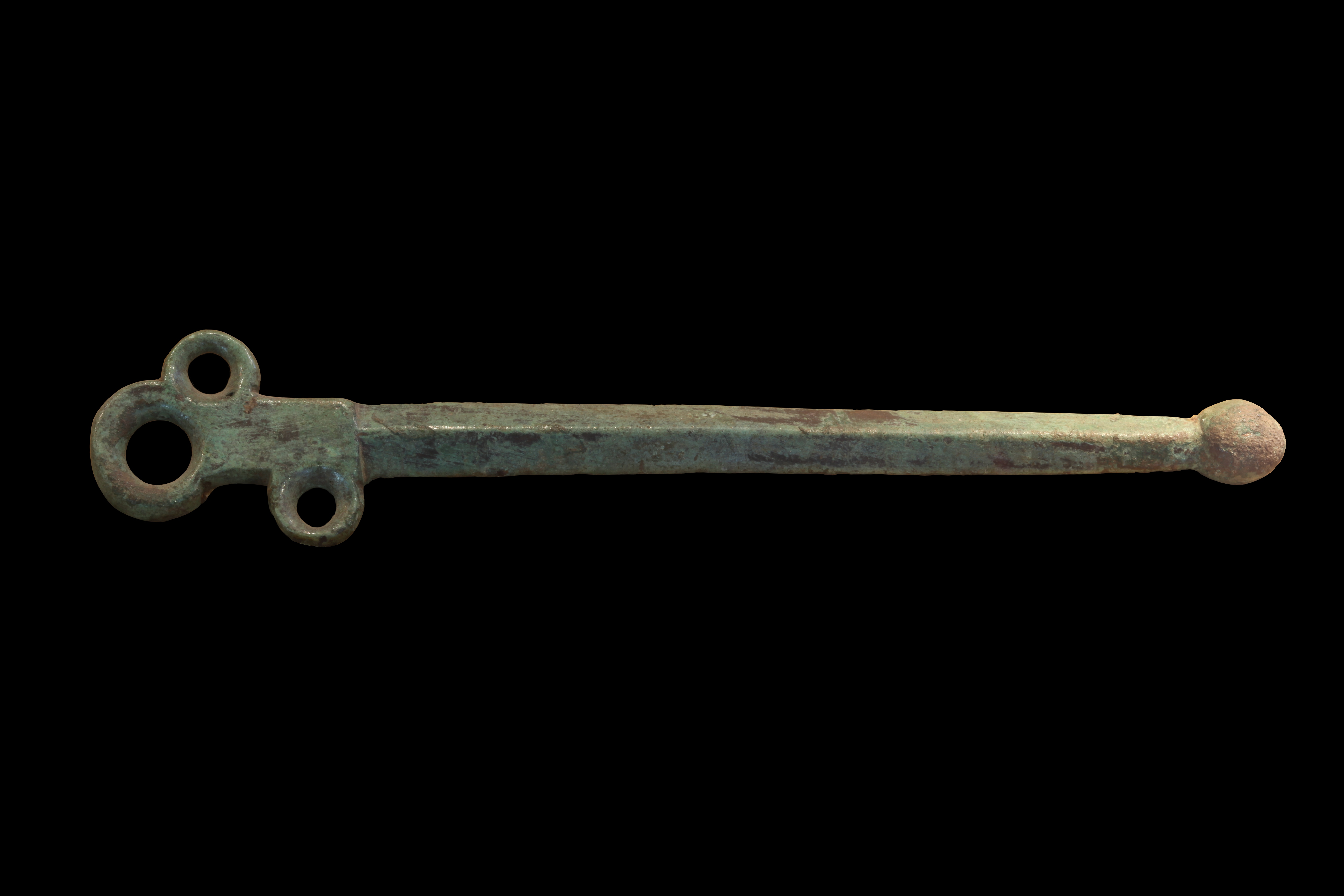 Beam of a scale. Bronze. On display at Vidy Roman Museum, Lausanne, Switzerland.